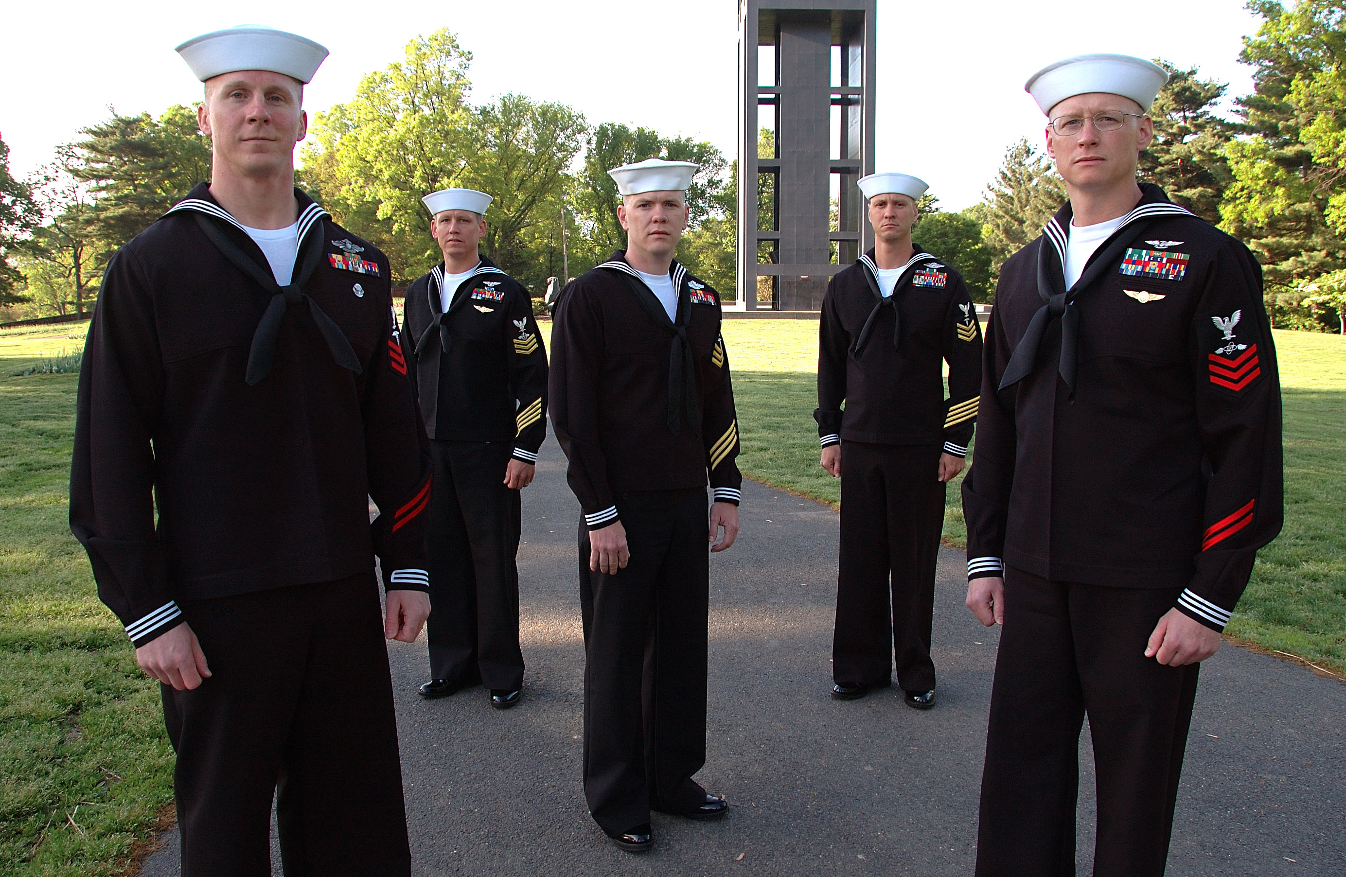 060427-N-1722M-060 Washington, D.C. (April 27, 2006) - The five finalists in the Navy Reserve Sailor of the Year competition are pictured on the grounds of the Netherlands Carillon in Washington D.C. Pictured from left to right is Hospital Corpsman 1st Class Aaron P. Clifford, Aviation Warfare System Operator 1st Class Robert F. Weber, Hospital Corpsman 1st Class David L. Worrell, Hospital Corpsman 1st Class Richard F. George, and Aviation Electronics Technician 1st Class Todd P. Brooks. Hospital Corpsman 1st Class David L. Worrell was selected as the 2006 Reserve Sailor of the Year.